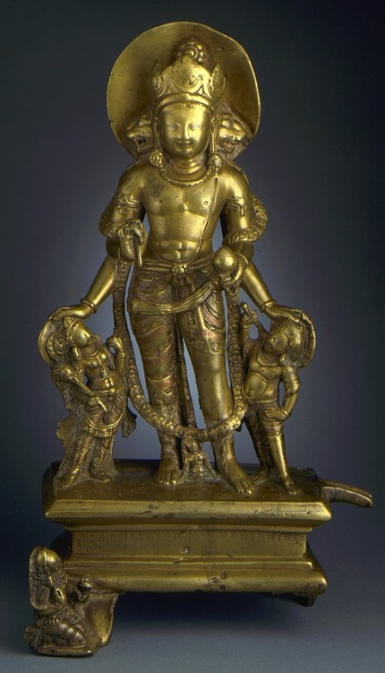 India, Jammu and Kashmir, Kashmir region, circa 850 Sculpture Brass inlaid with copper and silver 18 1/4 x 11 x 6 1/8 in. (46.36 x 27.94 x 15.55 cm) From the Nasli and Alice Heeramaneck Collection, Museum Associates Purchase (M.80.6.2) South and Southeast Asian Art Currently on public view: Ahmanson Building, floor 4